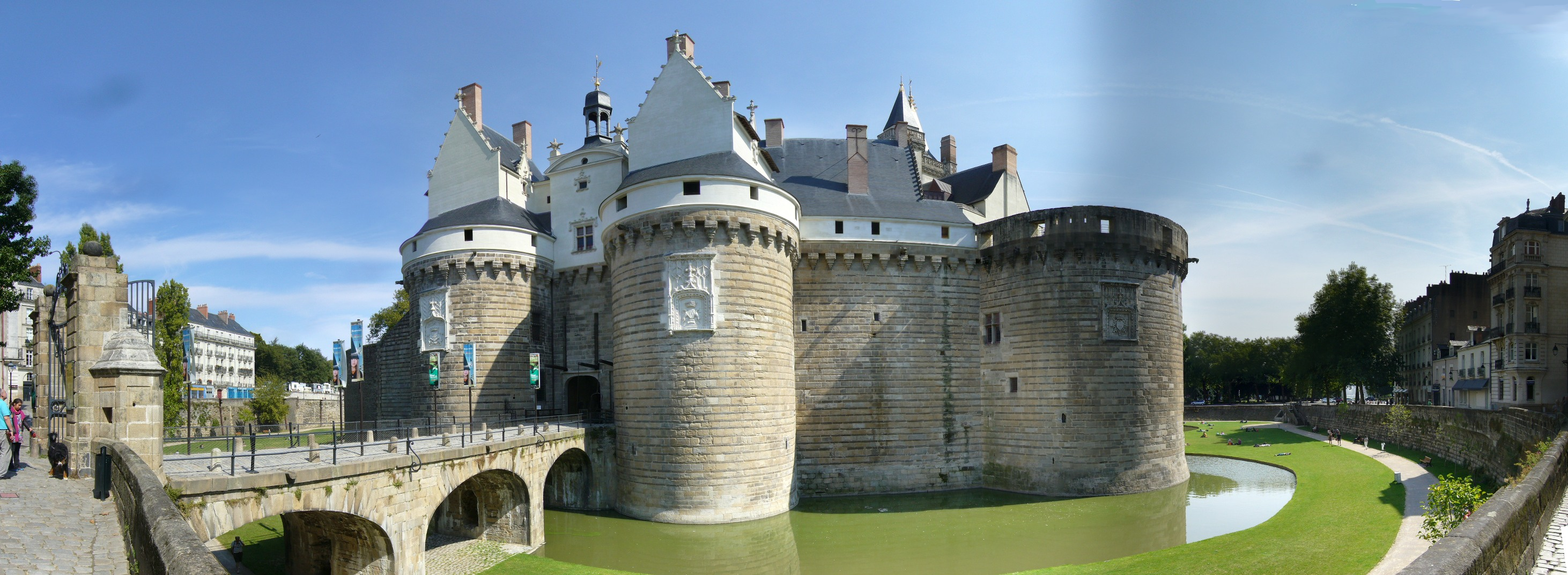 Château des Ducs de Bretagne in Nantes, entrance. Images merged with HUGIN